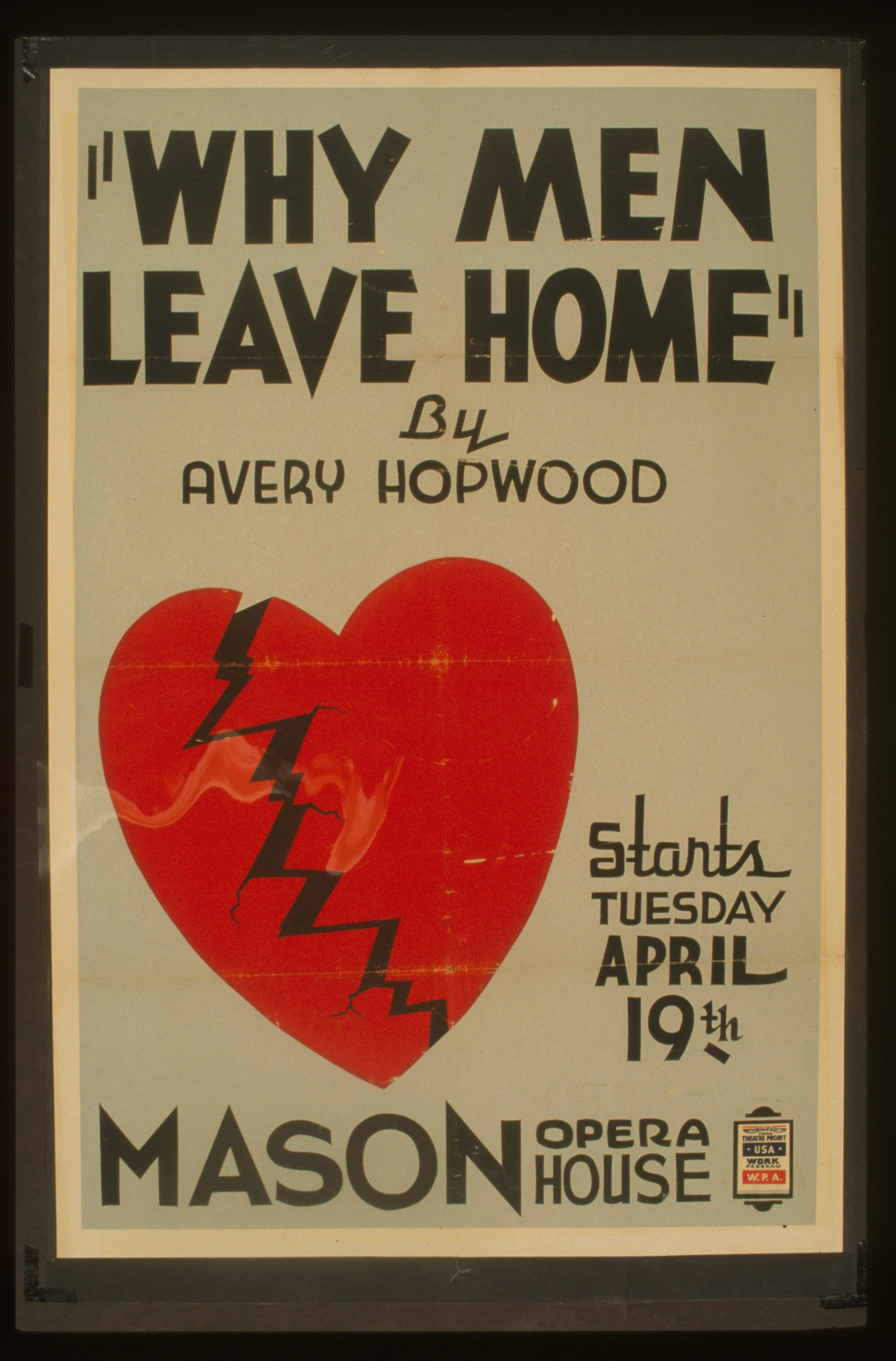 Title: "Why men leave home" by Avery Hopwood Abstract: Poster for Federal Theatre Project presentation of "Why Men Leave Home" at the Mason Opera House, showing a broken heart. Physical description: 1 print (poster) : silkscreen, color. Notes: Work Projects Administration Poster Collection (Library of Congress).